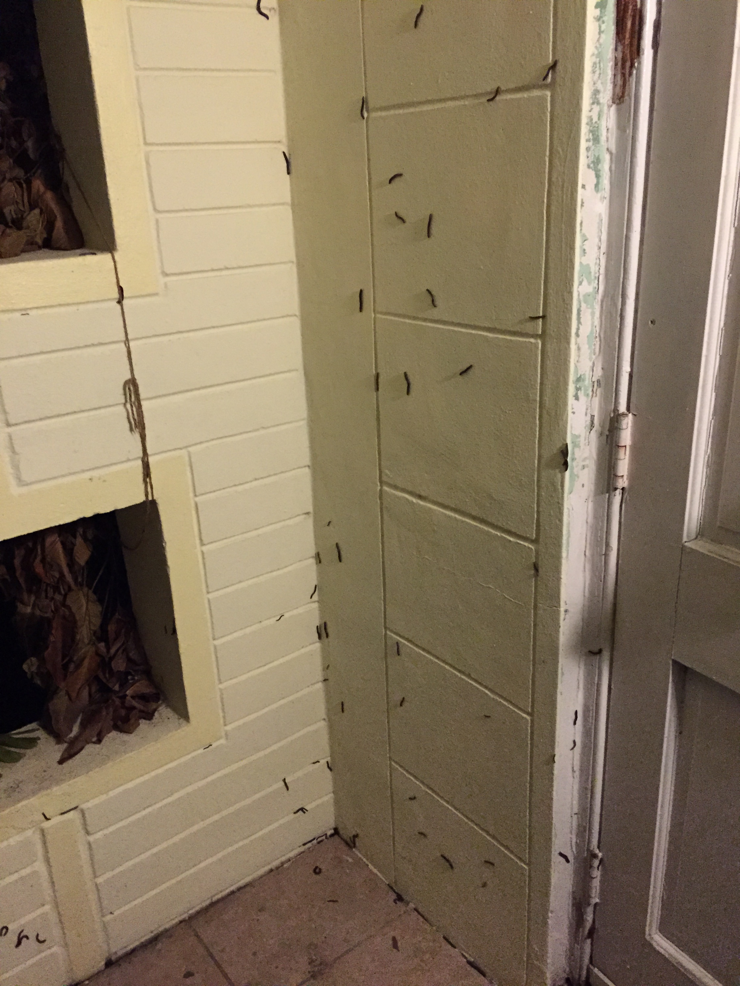 Yellow Banded Millipedes (Anadenobolus monilicornis) near porch light at night in South Miami, Florida